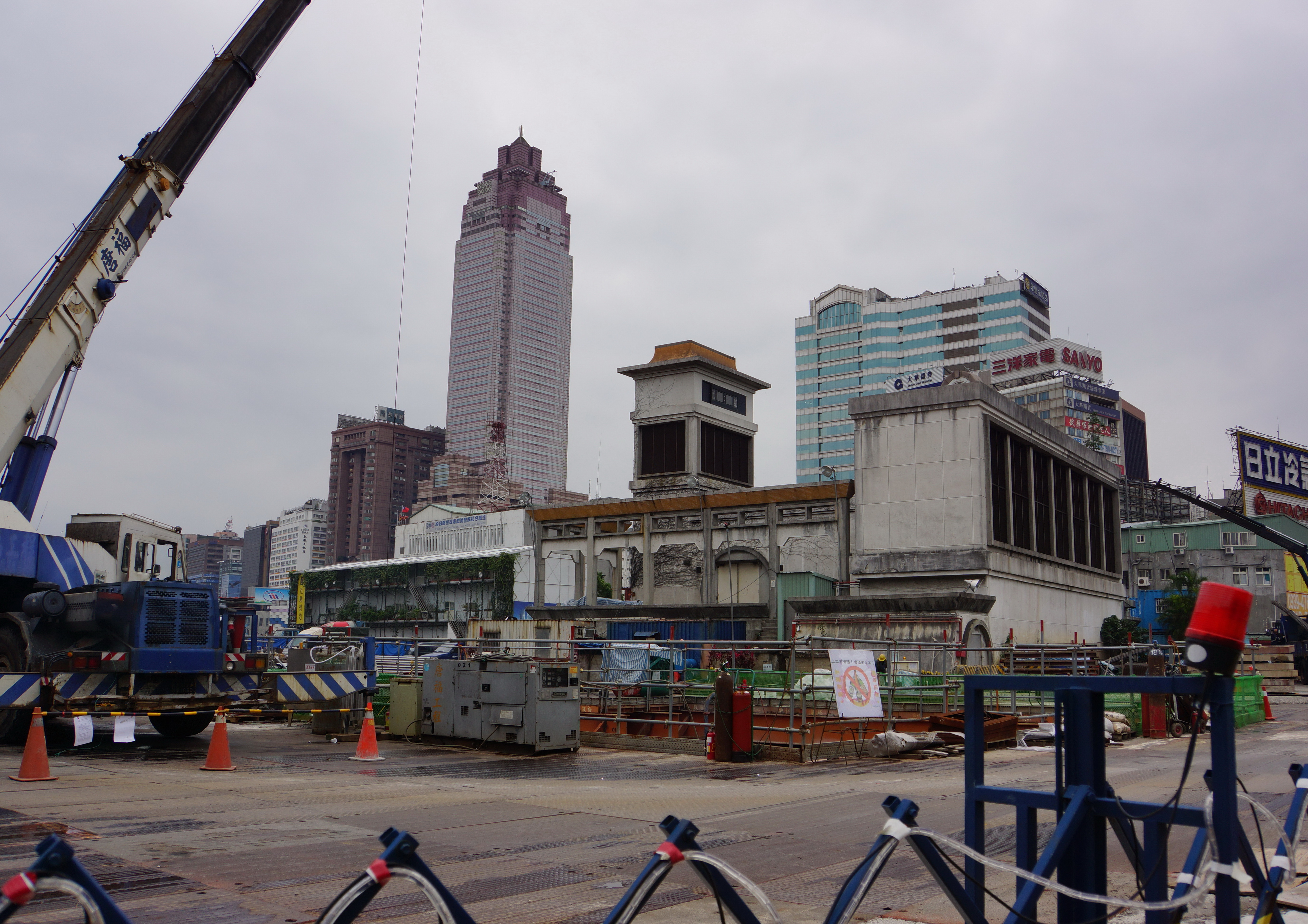 雙子星工地 Construction Site of Gemini